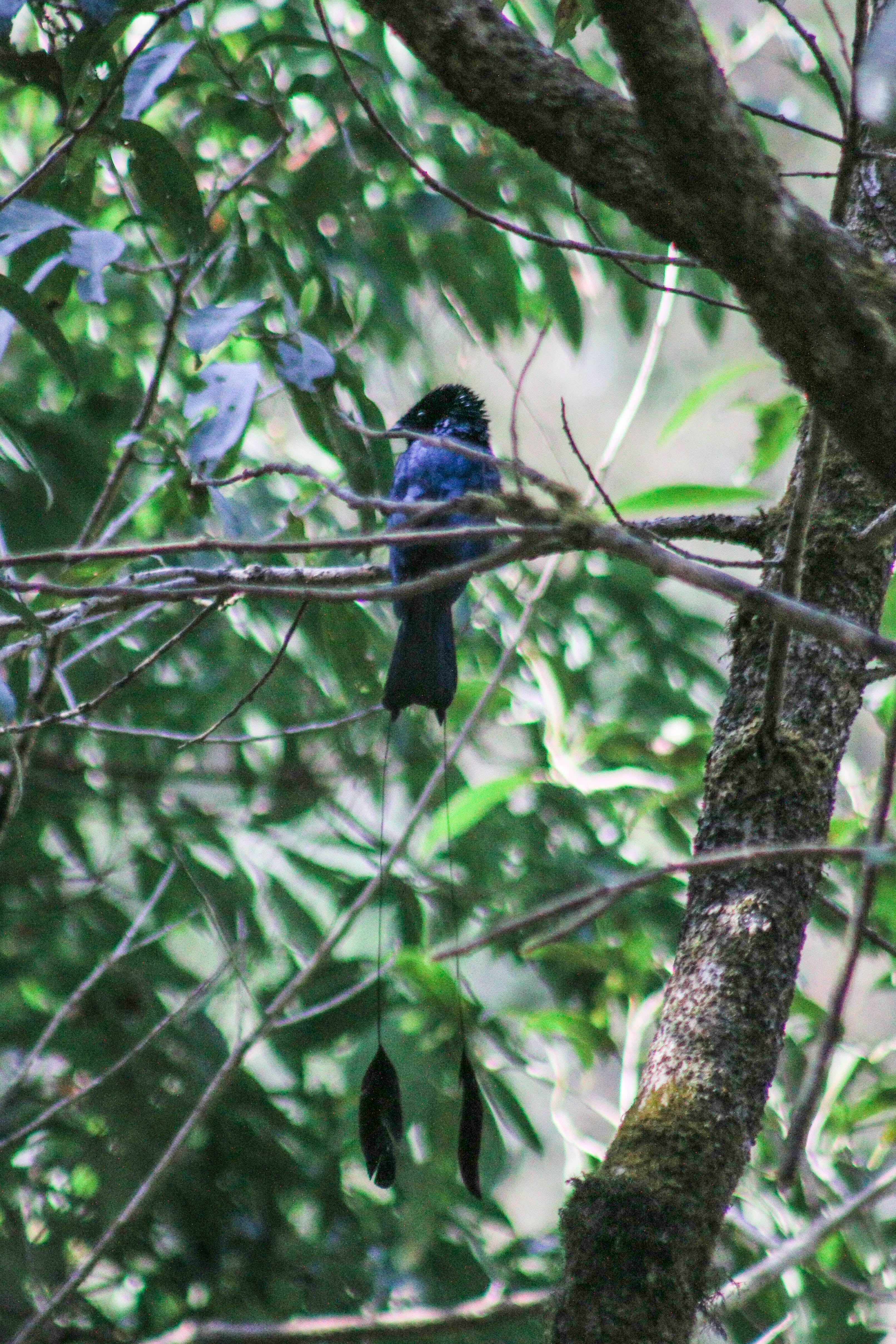 Lesser racket-tailed drongo in Nepal.